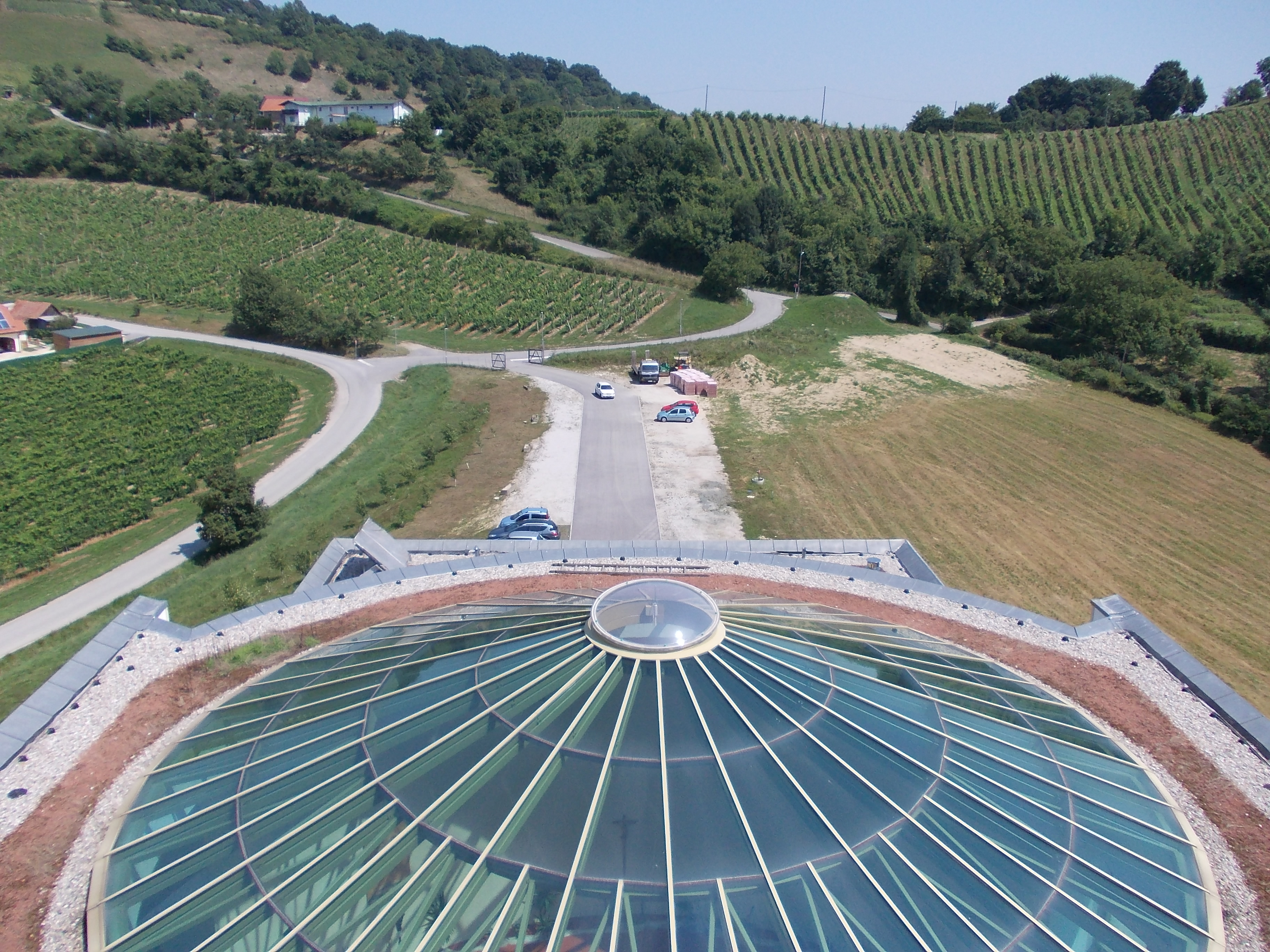 View on Košaki from the tower of Blessed Anton Martin Slomšek Church, Maribor